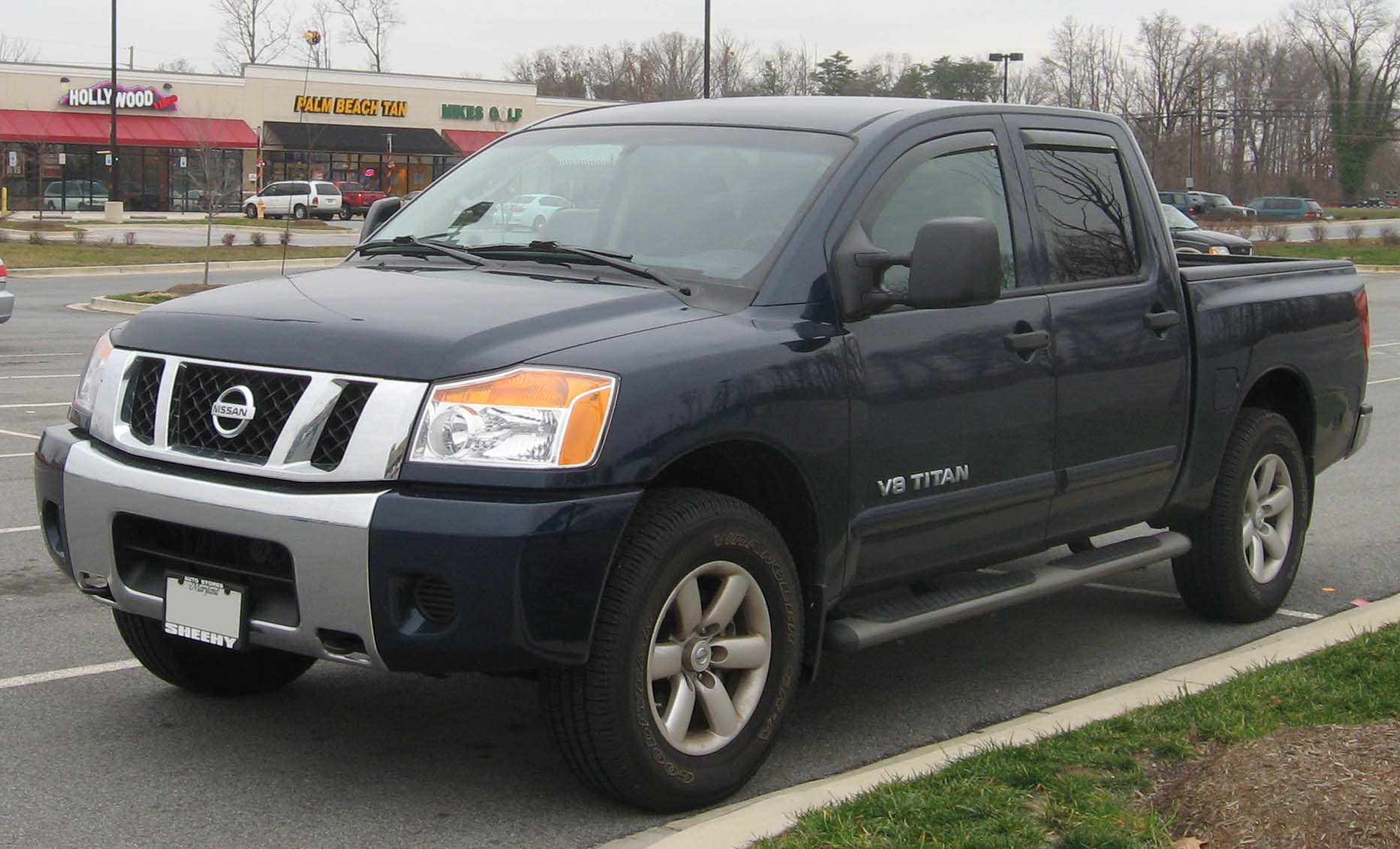 2008 Nissan Titan photographed in Waldorf, Maryland, USA.